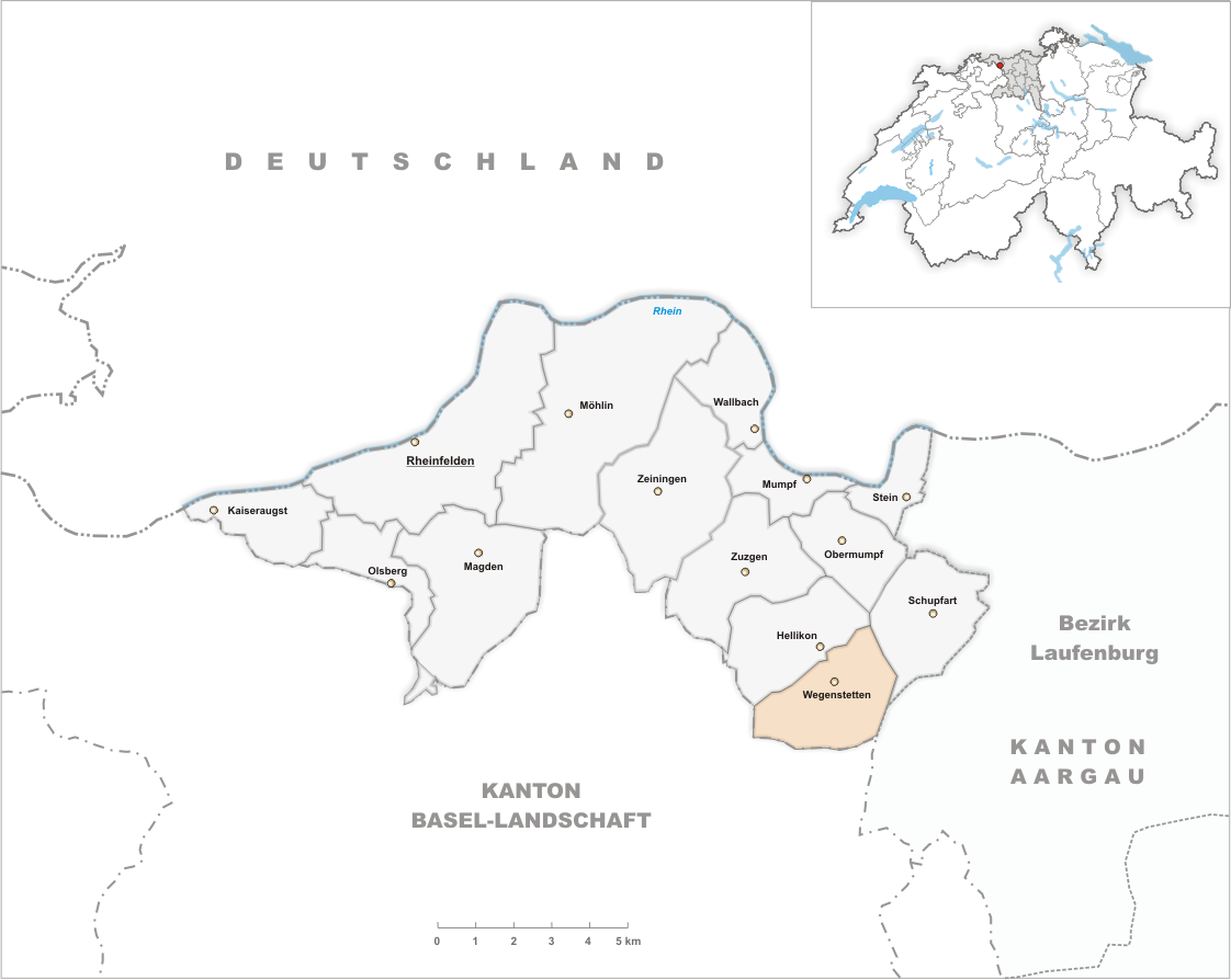 Municipality Wegenstetten